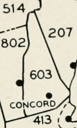 603 area code, as of 1952: the whole of New Hampshire.